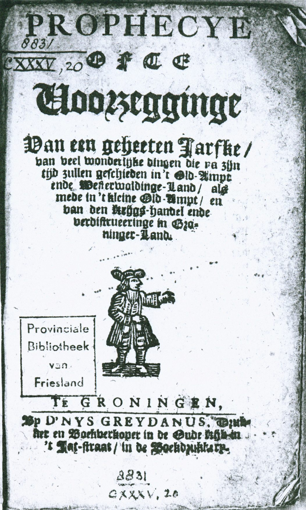 Prophecye van Jarfke (pamplet), Groningen about 1790